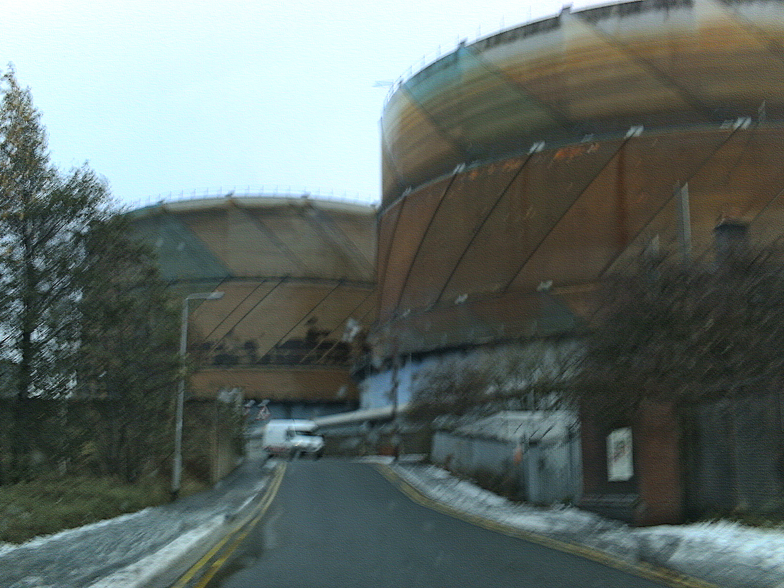 Meadow Lane Gas Works, gasholders 3 & 5, Hunslet, Leeds, UK